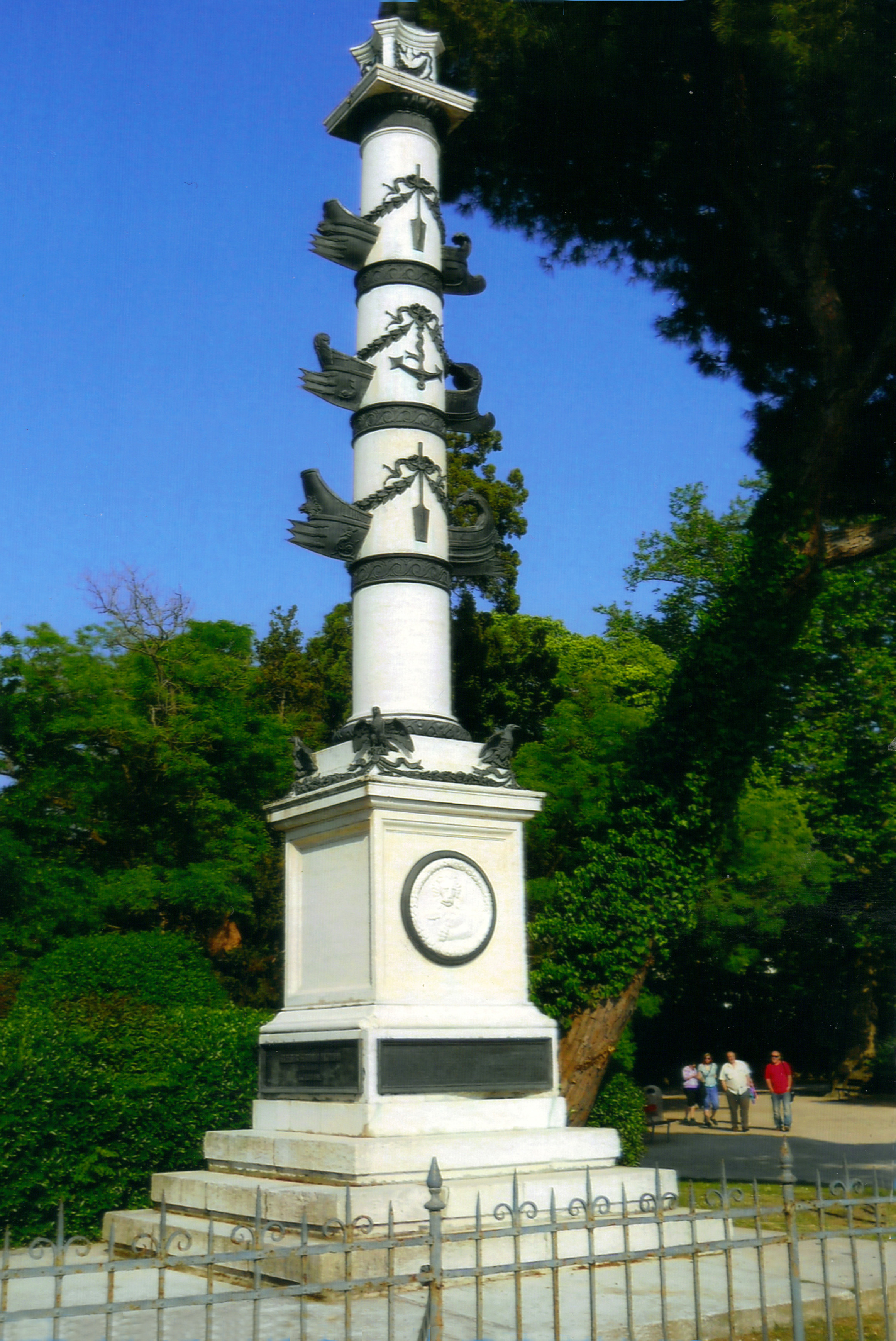 Rostral column, orinally erected by the Austrian navy in Pola (Pula) honouring archduke Ferdinand Maximilian, taken to Venice after World War I